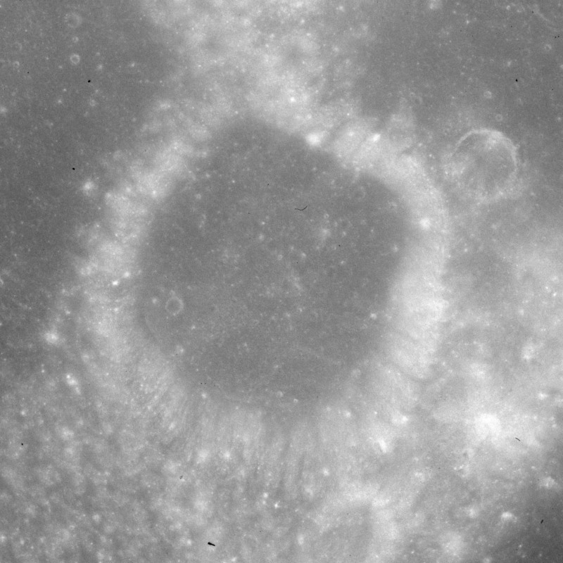 Pomortsev crater, the moon. Rotated so that north is at top.